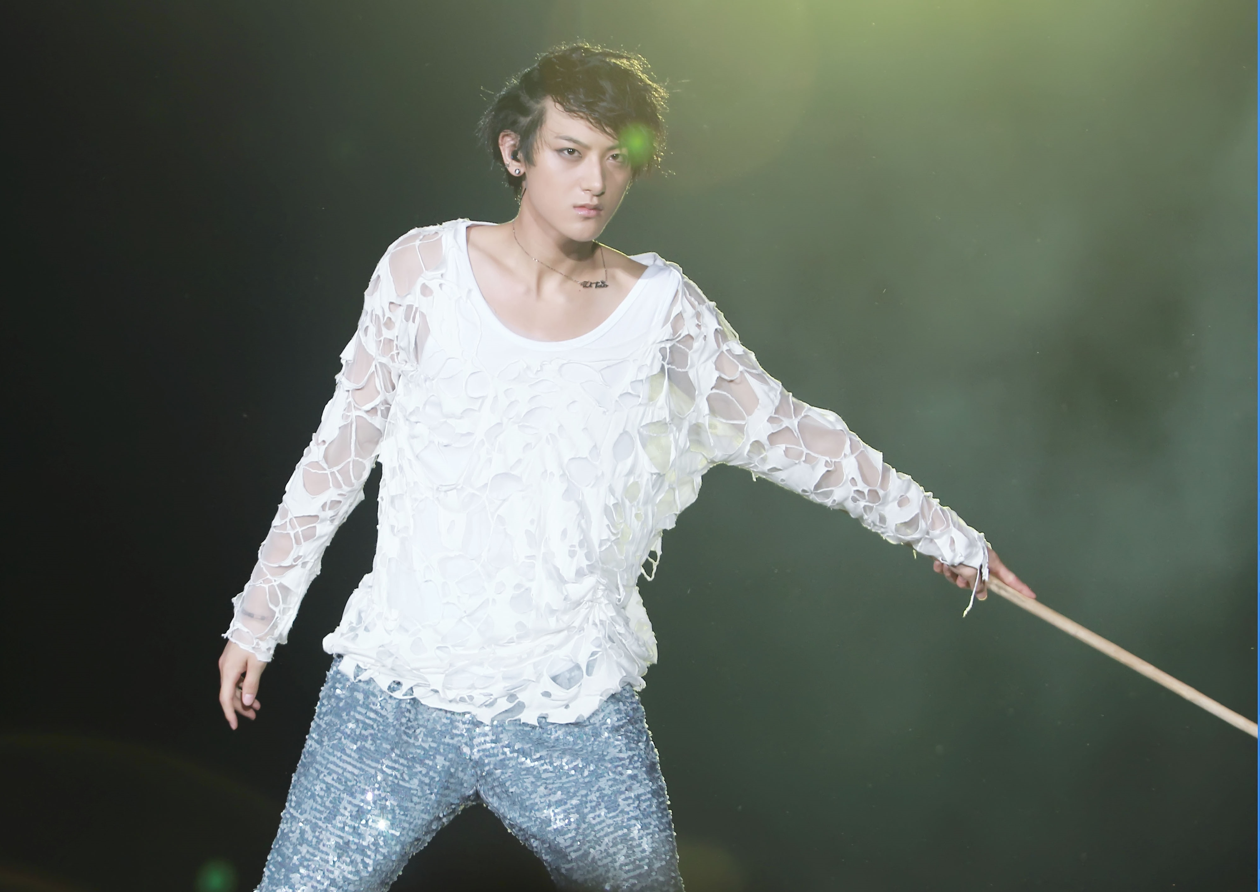 Tao Huang at the SMTown Live World Tour III in Seoul August 18, 2012.